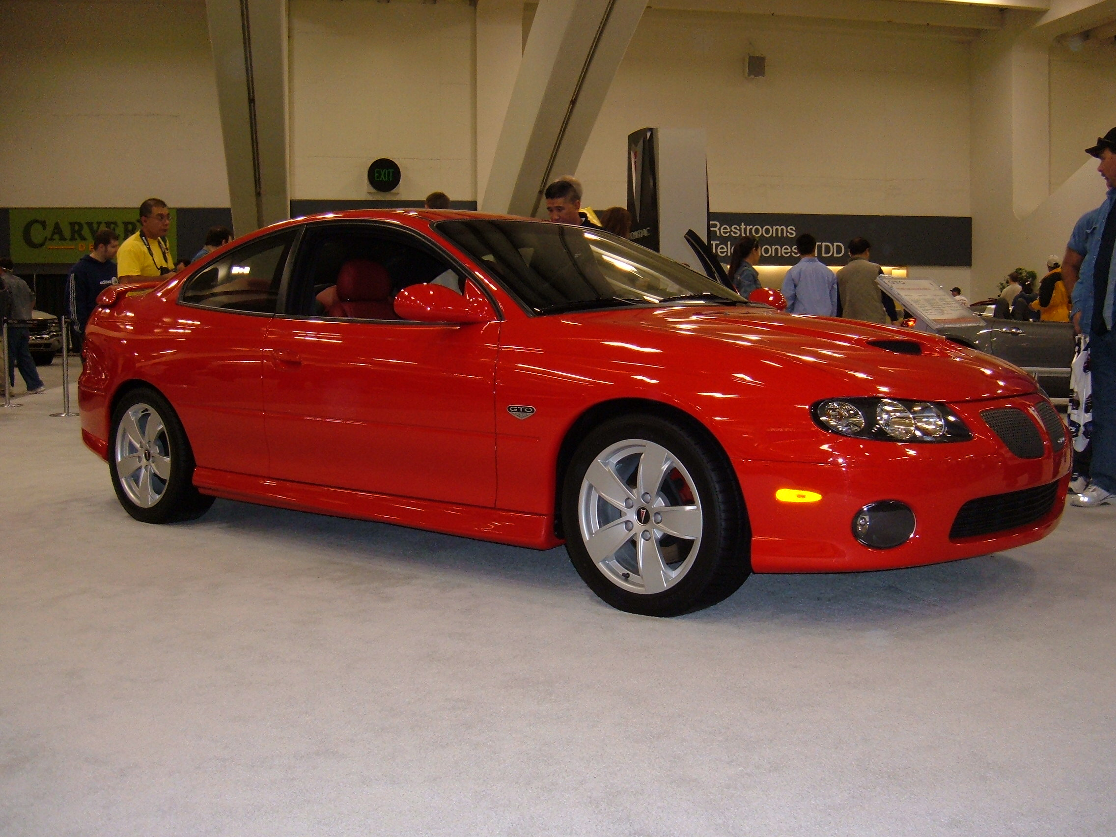 A 2005 Pontiac GTO at the 2004 San Francisco International Auto Show.